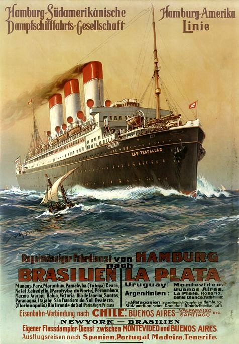 Poster of the Cap Trafagar. Note that the "1899" in this filename is potentially misleading as the ship was built in 1913, with maiden voyage and later sinking in 1914.